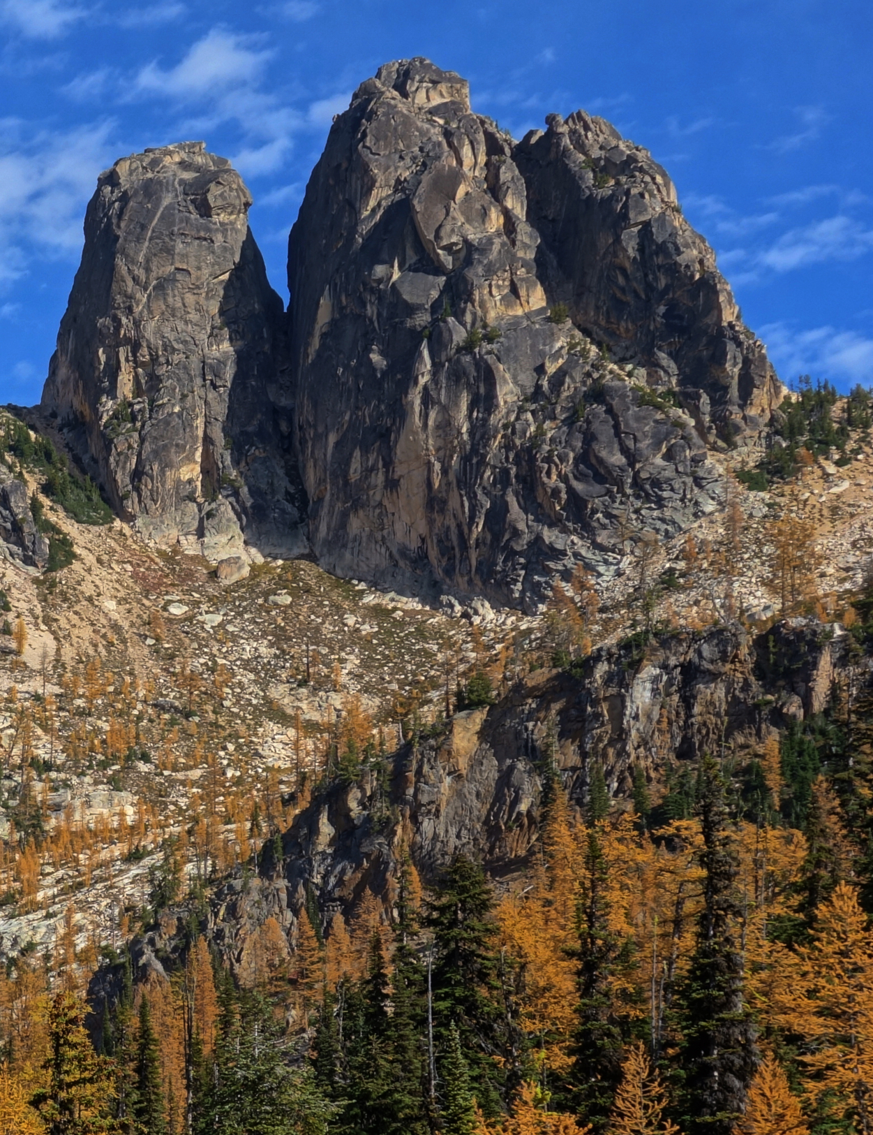 South and North Early Winters Spires from Blue Lake trail